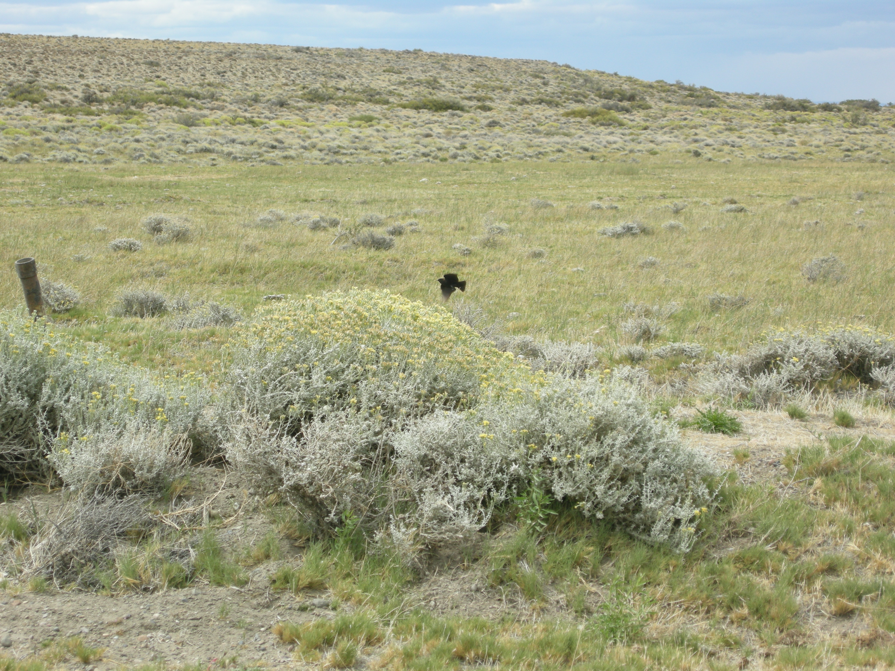 Patagonian Negrito (Lessonia rufa) male flying. Picture taken in Sarmiento (Chubut province, Argentina).